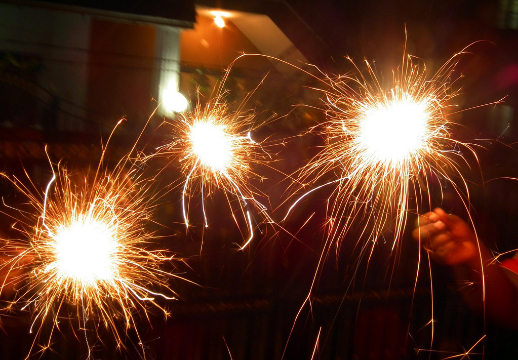 The sparklers in Diwali Celebrations 2010